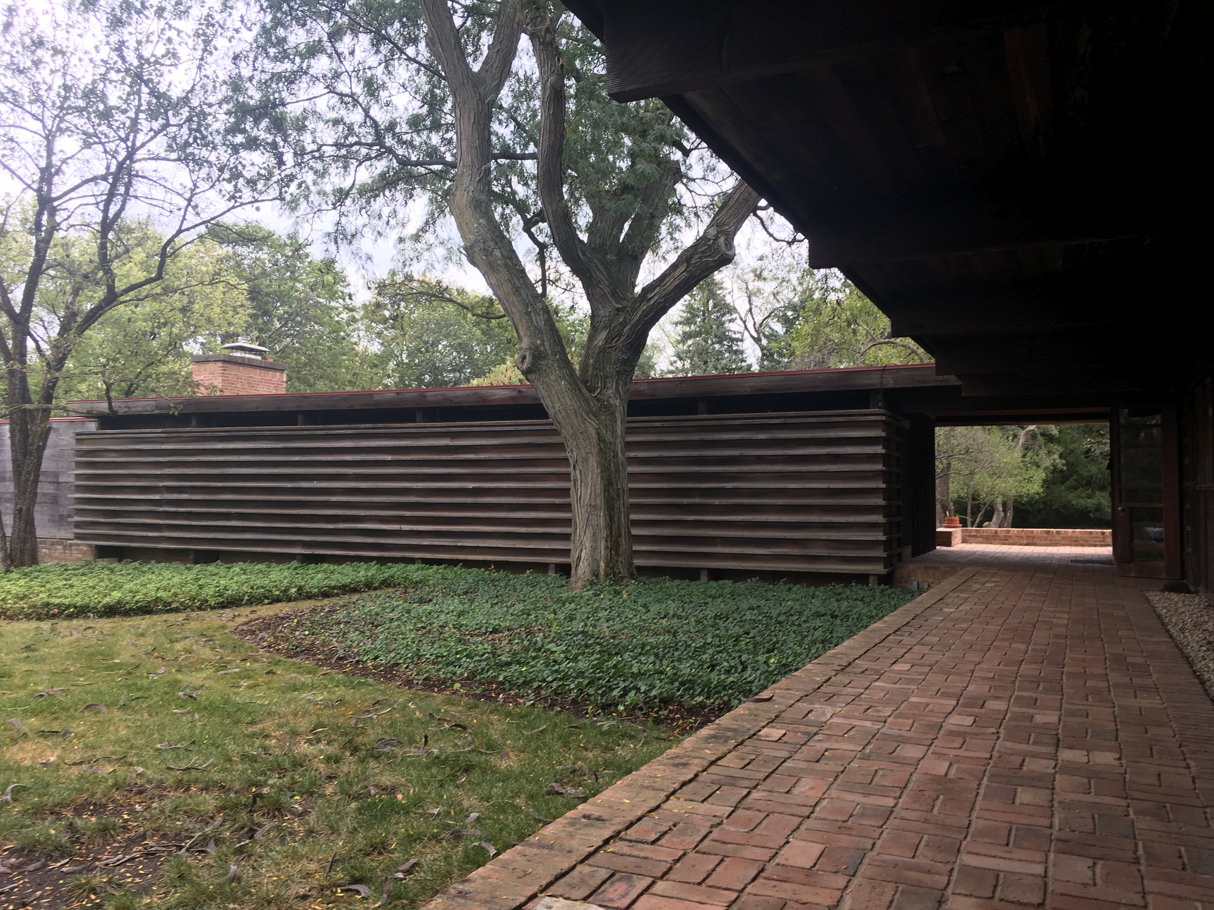 The exterior of the Schweikher House Home & Studio, focusing on the studio portion of the home.